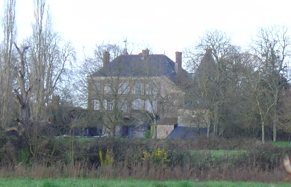 Château de la Sorinière - Chemillé (Maine-et-Loire) - view from the D124 - facing the Bois de Sainte-Anne